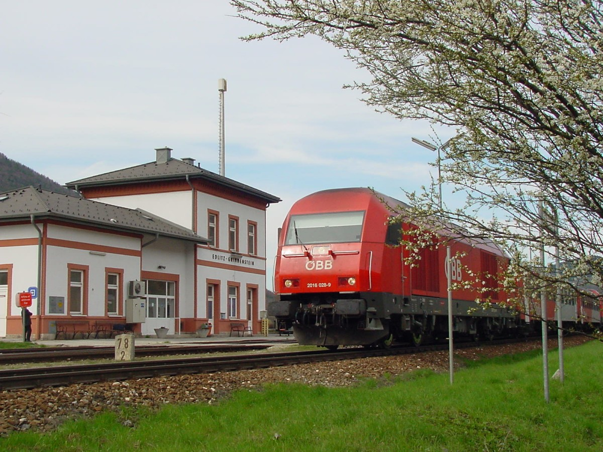 Edlitz-Grimmenstein train station in Lower Austria